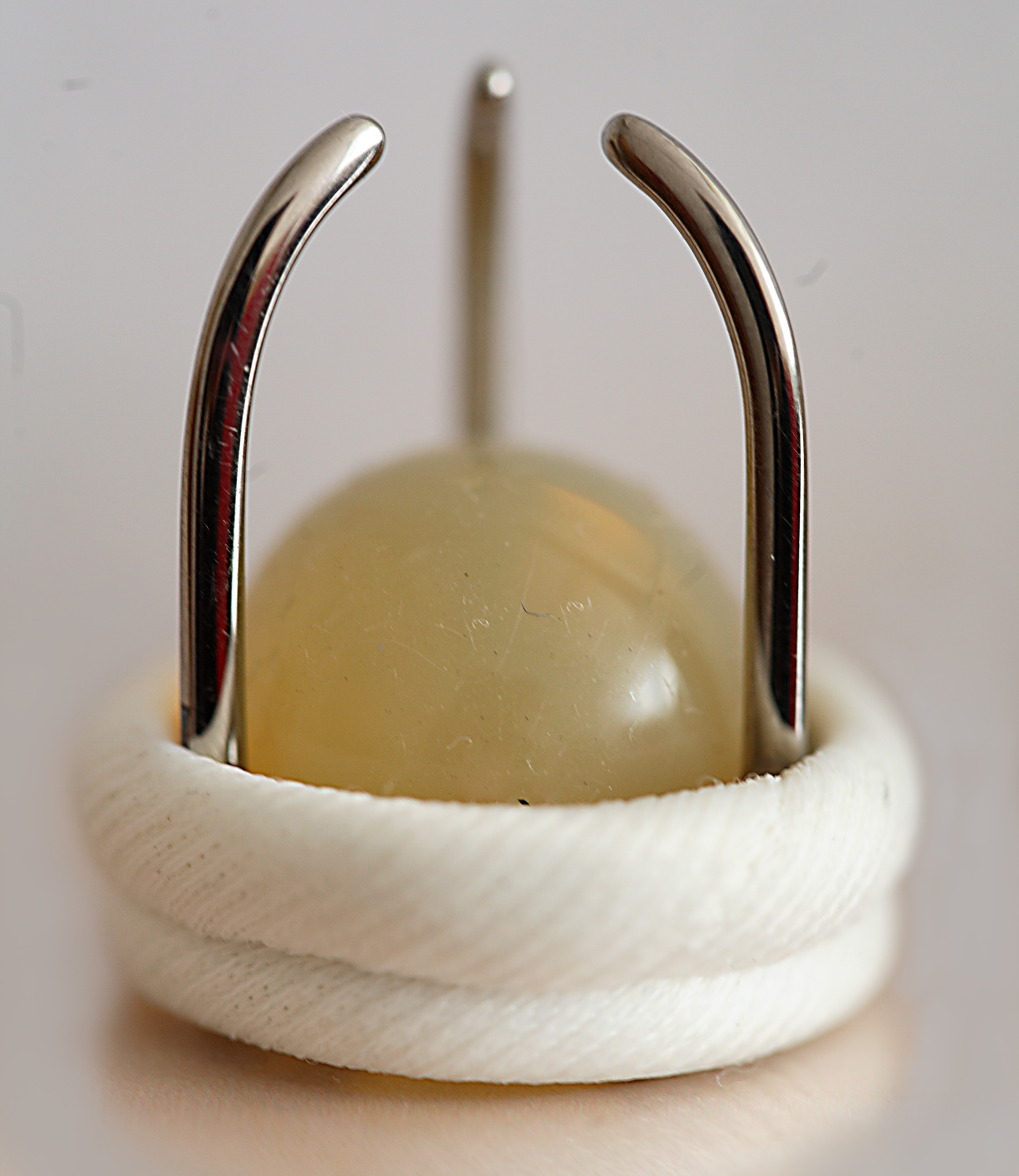 AKCH-06 artificial heart valve